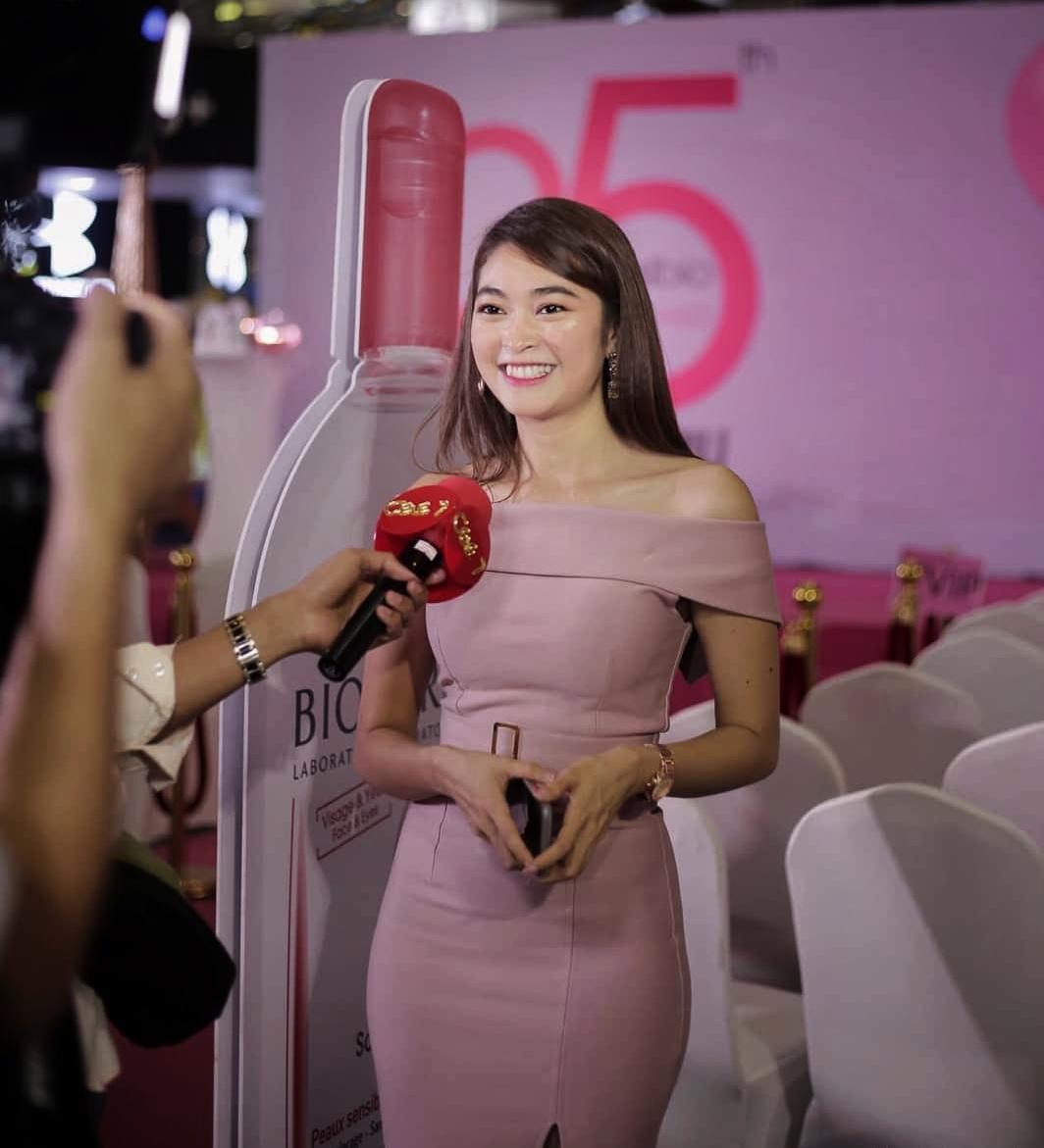 Thazin Nwe Win is a famous host and actress from Myanmar.